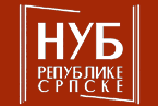 National and University Library of the Republika Srpska LOGO ; Banja Luka